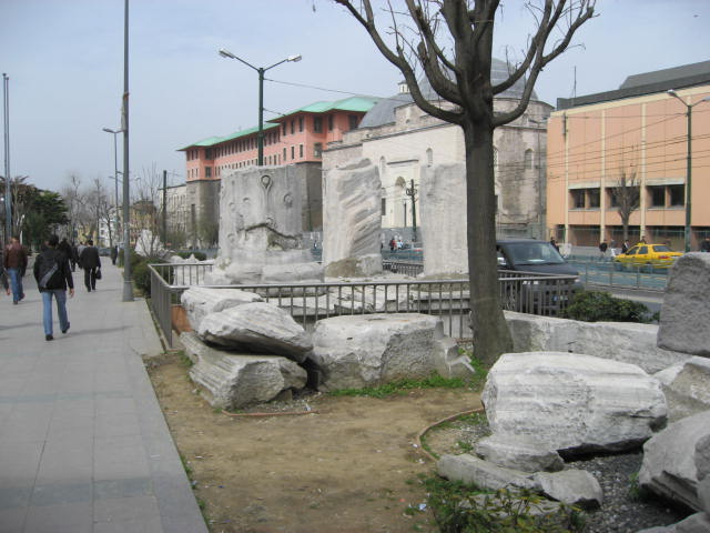 The ruins of the Triumphal Arch of Theodosius. The marble pieces that are located here belong to the Triumphal Arch and the forum built by and named after Emperor Theodosius the Great (4th century CE). The Triumphal Arch was situated on the southwest corner of the Theodosius Forum (today Beyazit Square). This area used to be called "Forum Tauri" (The Bull Square) but in the 4th century CE the name was changed into the "Forum of Theodosius". During this period, the forum was surrounded by marble public and civil buildings decorated with porticoes. The marble archeological pieces that can be seen today were found between the years 1948 and 1961 during the rearrangements of Beyazit Square and Ordu street. After the discovery of these pieces, an experimental reconstruction was made in spite of the absence of some pieces and finally the probably form of the monument was established. According to this reconstruction, the triumphal arch had a vaulted roof with three passageways. The central one was higher and the ones on either sides lower. It was conceived to be similar to the ones in Rome. In the middle was the statue of Theodosius, while on both sides statues of his sons were put up, Arcadius and Honorarius. Today the main street that starts from the Hagia Sophia Square is basically in the same direction to the west with the ancient Mese road, which formed the main artery of the old city. The Mese, passing through the Theodosius triumphal arch continued on to Thrace and reached out the Balkan peninsula. The triumphal arch and the surrounding ancient buildings to which some ruins possibly belong were destoryed as a result of invasions and natural disasters like earthquakes from the 5th century on. Thus their destruction was completed long before the conquest of Constantinople by the Ottoman Turks.